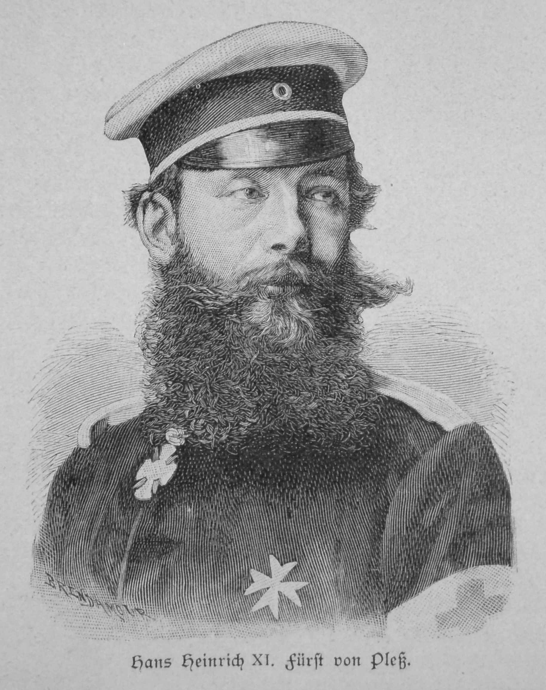 Hans Heinrich XI. sovereign von Pleß